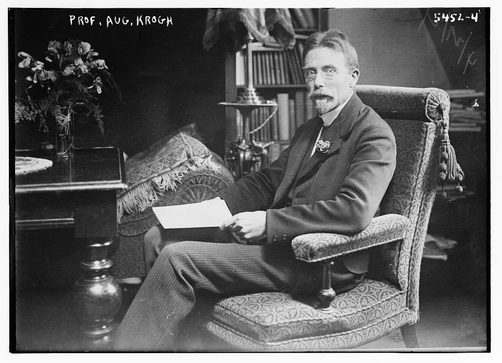 The Danish scientist August Krogh.